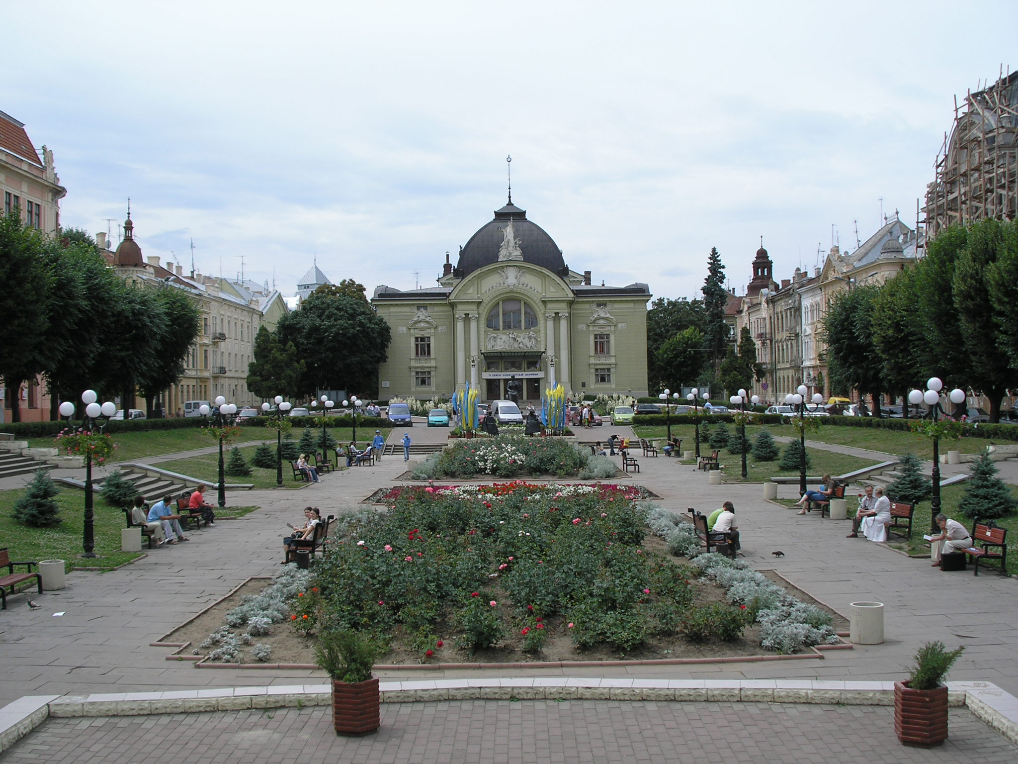 The Chernivtsi Theater in the city of Chernivtsi, Ukraine